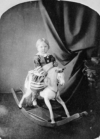 W.L. Mackenzie King, age 2, on a rocking horse